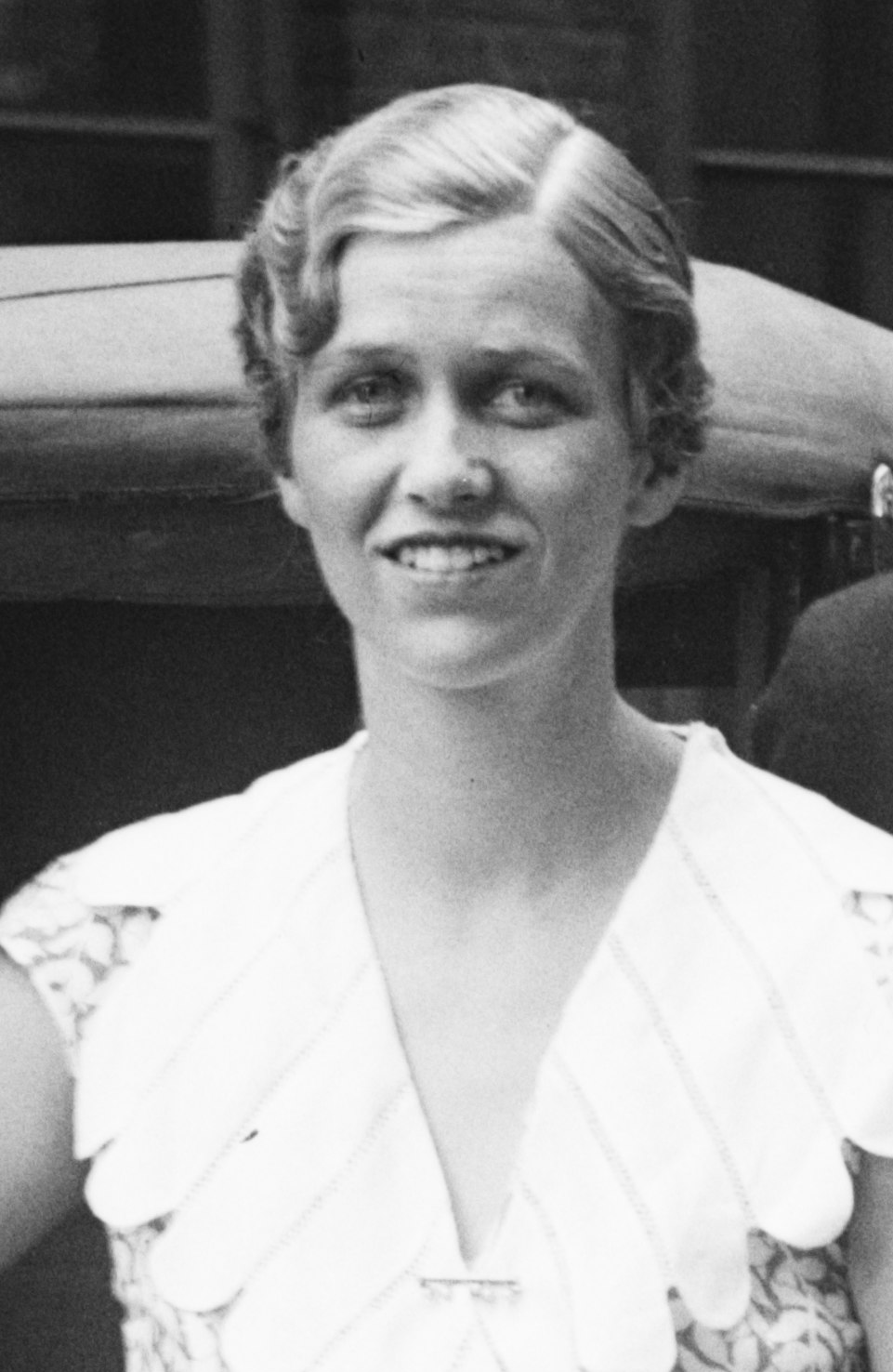 Title: Anna and John Roosevelt Abstract/medium: 1 negative : glass ; 4 x 5 in. or smaller